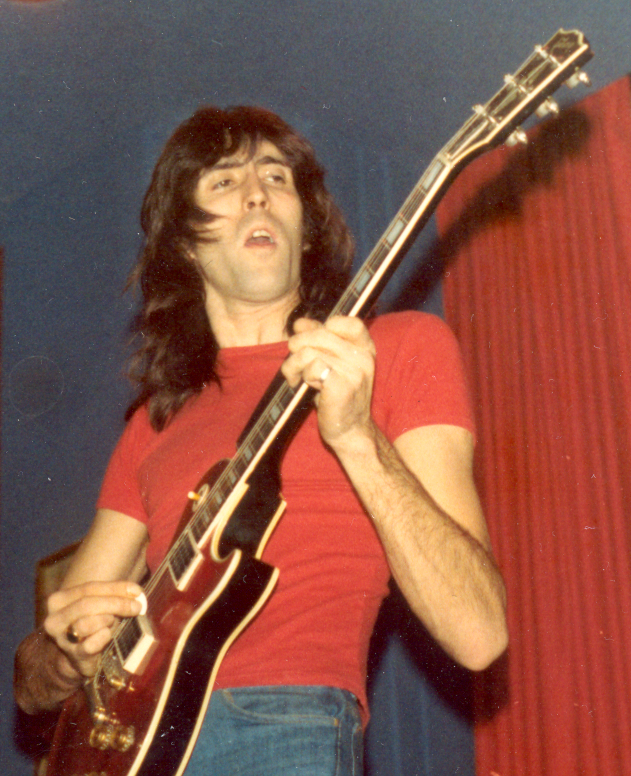 The guitarist Mickey Waller (aka Mickey Finn) playing with The Heavy Metal Kids in Croydon, 1974